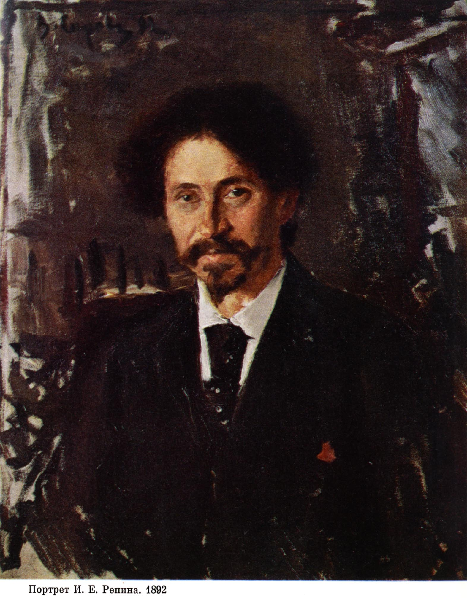 Portrait of the Artist Ilya Repin